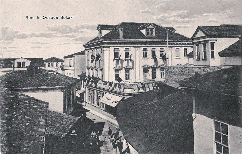 Uzun Sokak, Trebizond (Trabzon, Turkey) in the 1900s.